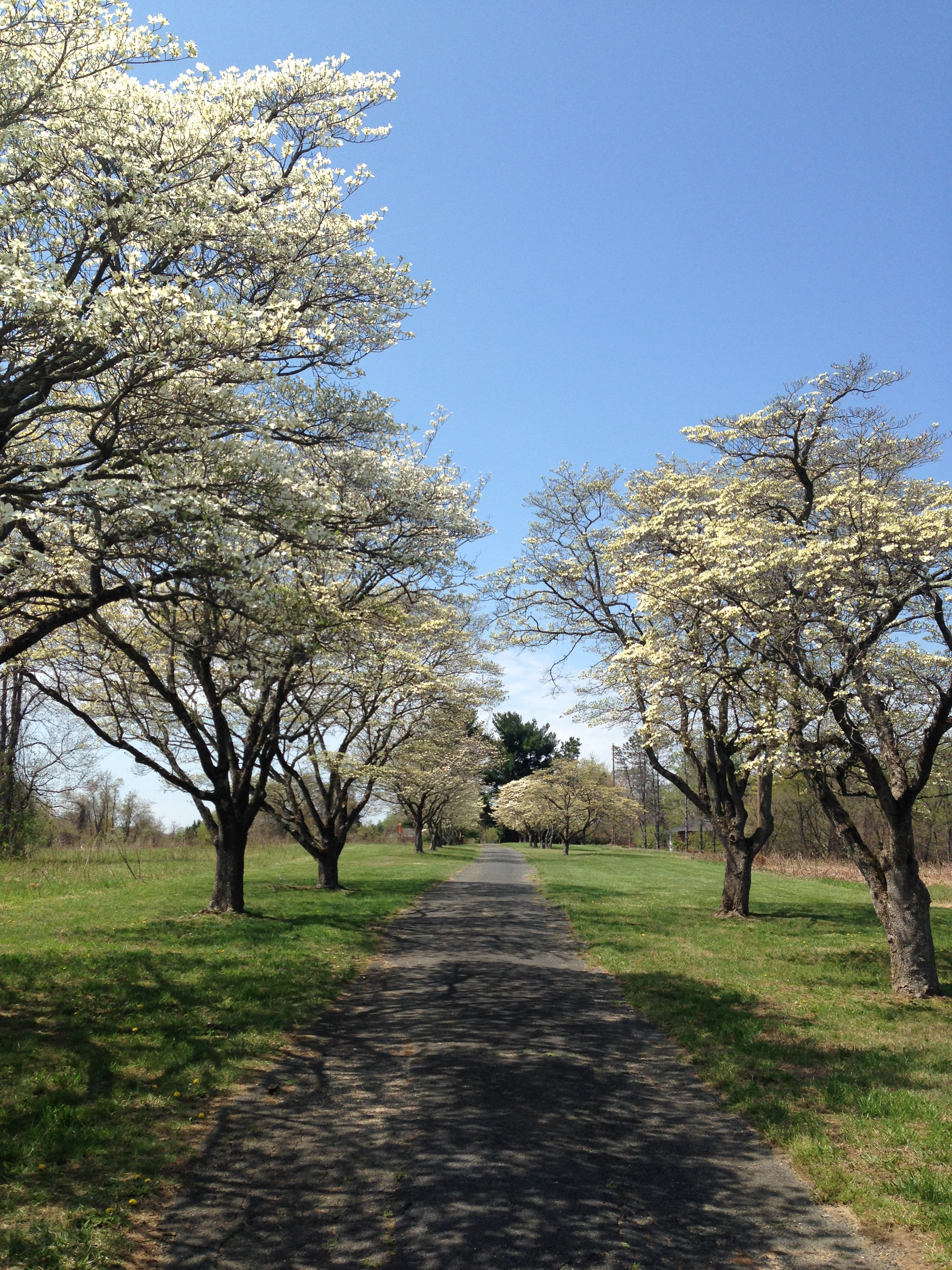 A pathway lined with white dogwood trees in the western area of Rockburn Branch Park in Elkridge, MD